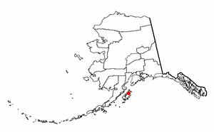 Adapted from Wikipedia's AK borough maps by Seth Ilys.